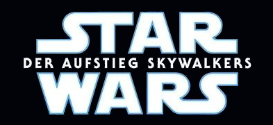 german Star Wars: The Rise of Skywalker logo